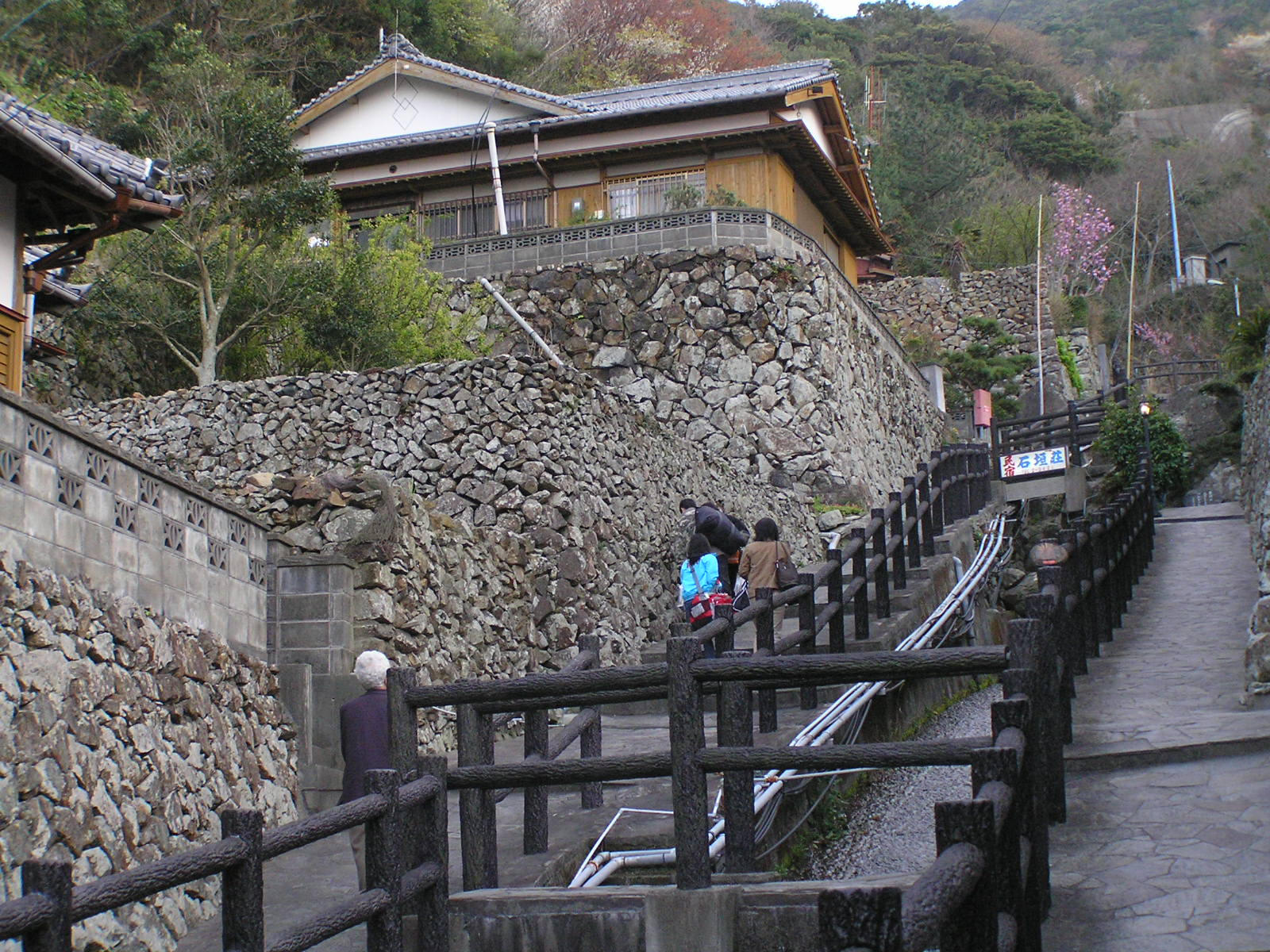 Sotodomari